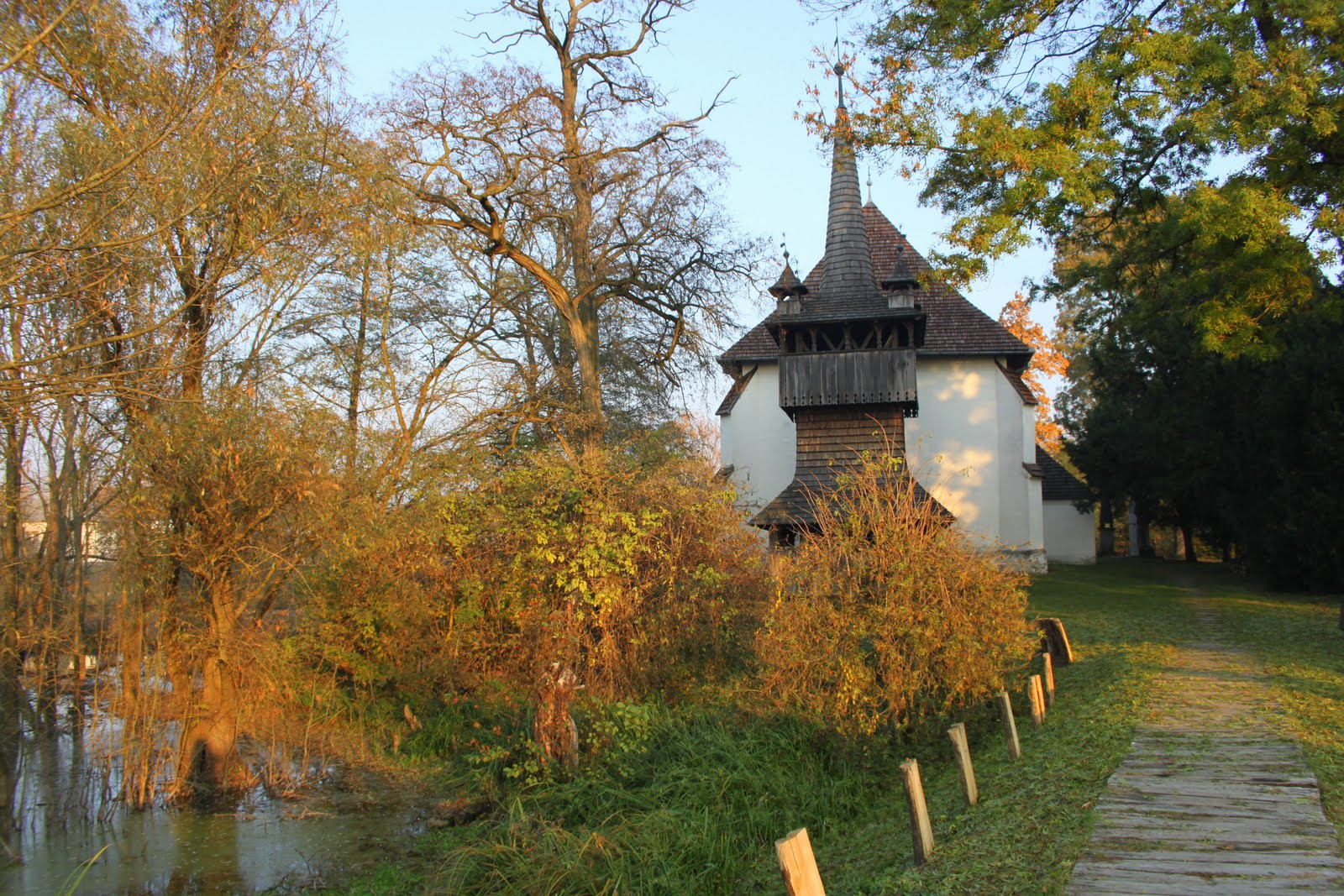 Reformed church in Nagyszekeres This is a photo of a monument in Hungary. Identifier: 8329